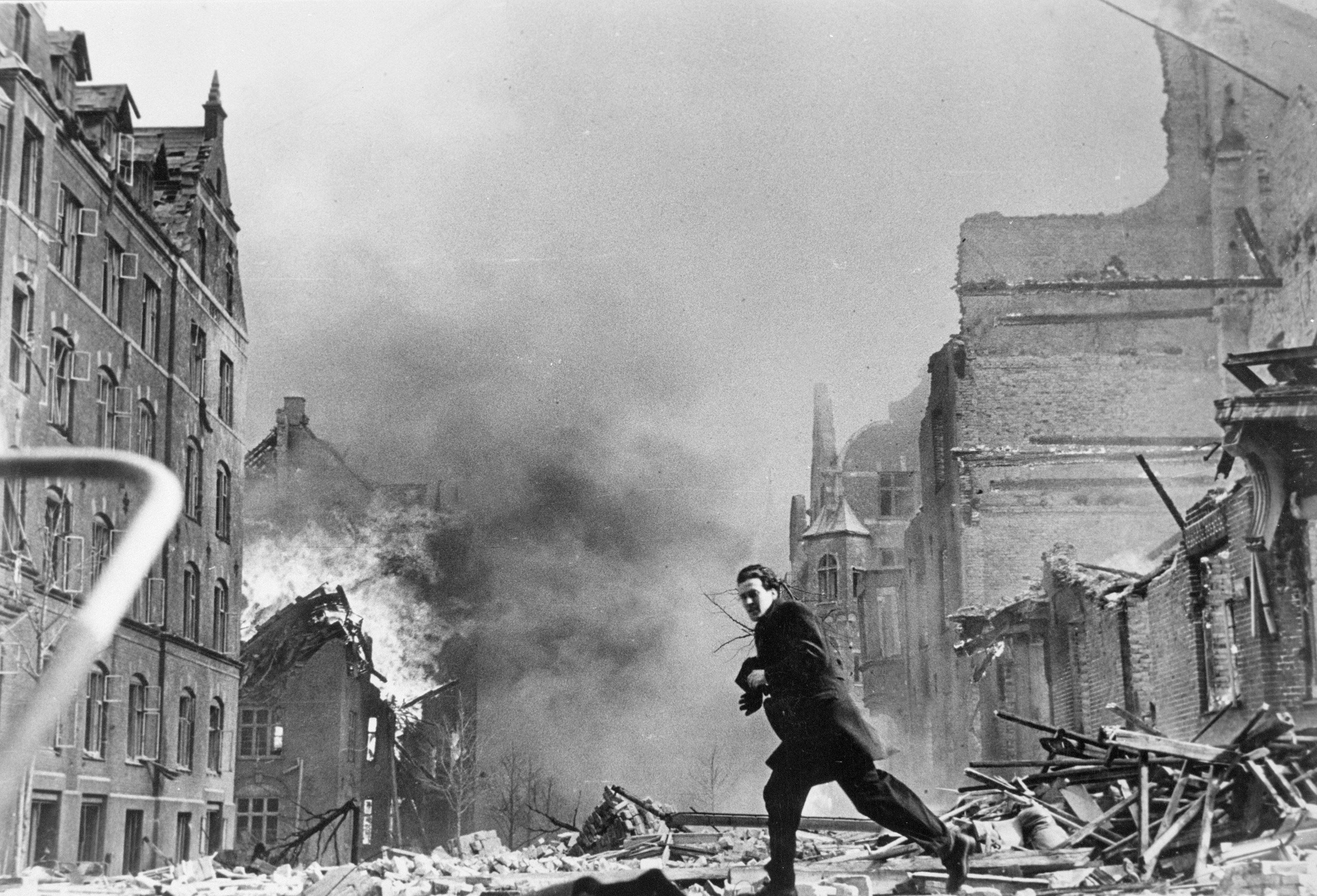 The bombing was a part of the Operation Carthage. The bombs where ment to hit the Shellhouse (Gestapo's headquarters), but one of the pilots dropped the bombs over the school because it lost control over the plane. After that the other pilots thought the school was the Shellhouse and dropped their bombs as well. 86 children and 18 adults died at the school. More images from The Museum of Danish Resistance